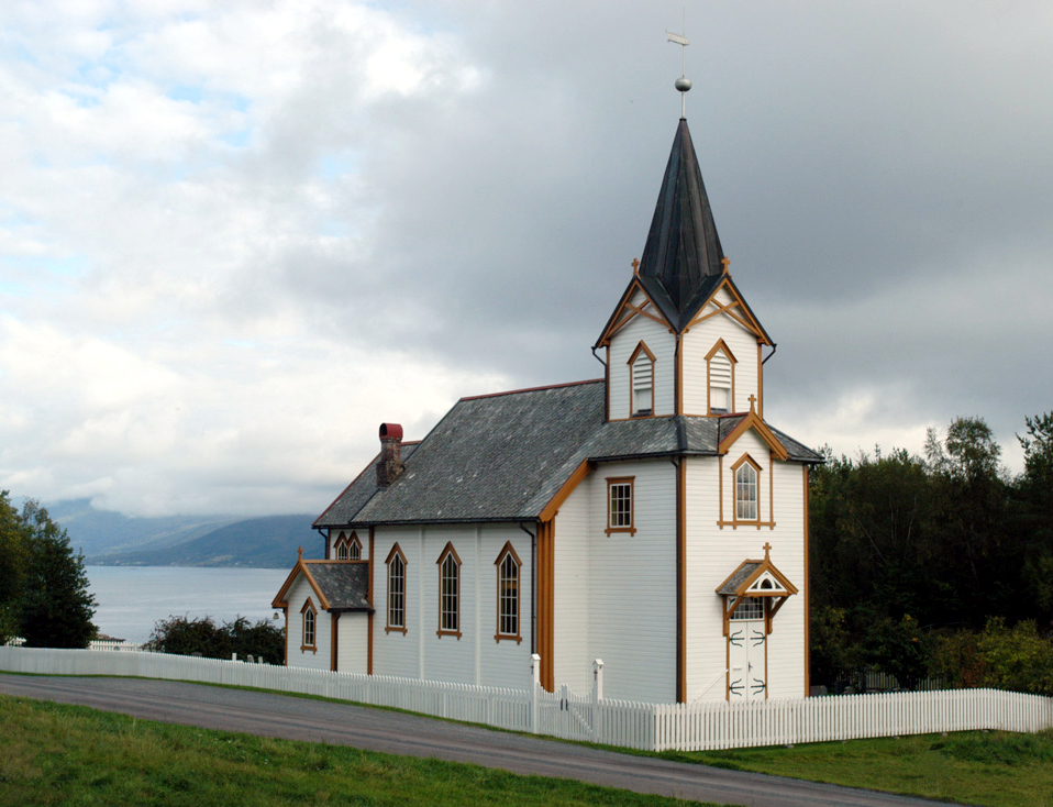 North-western view of Sekken church